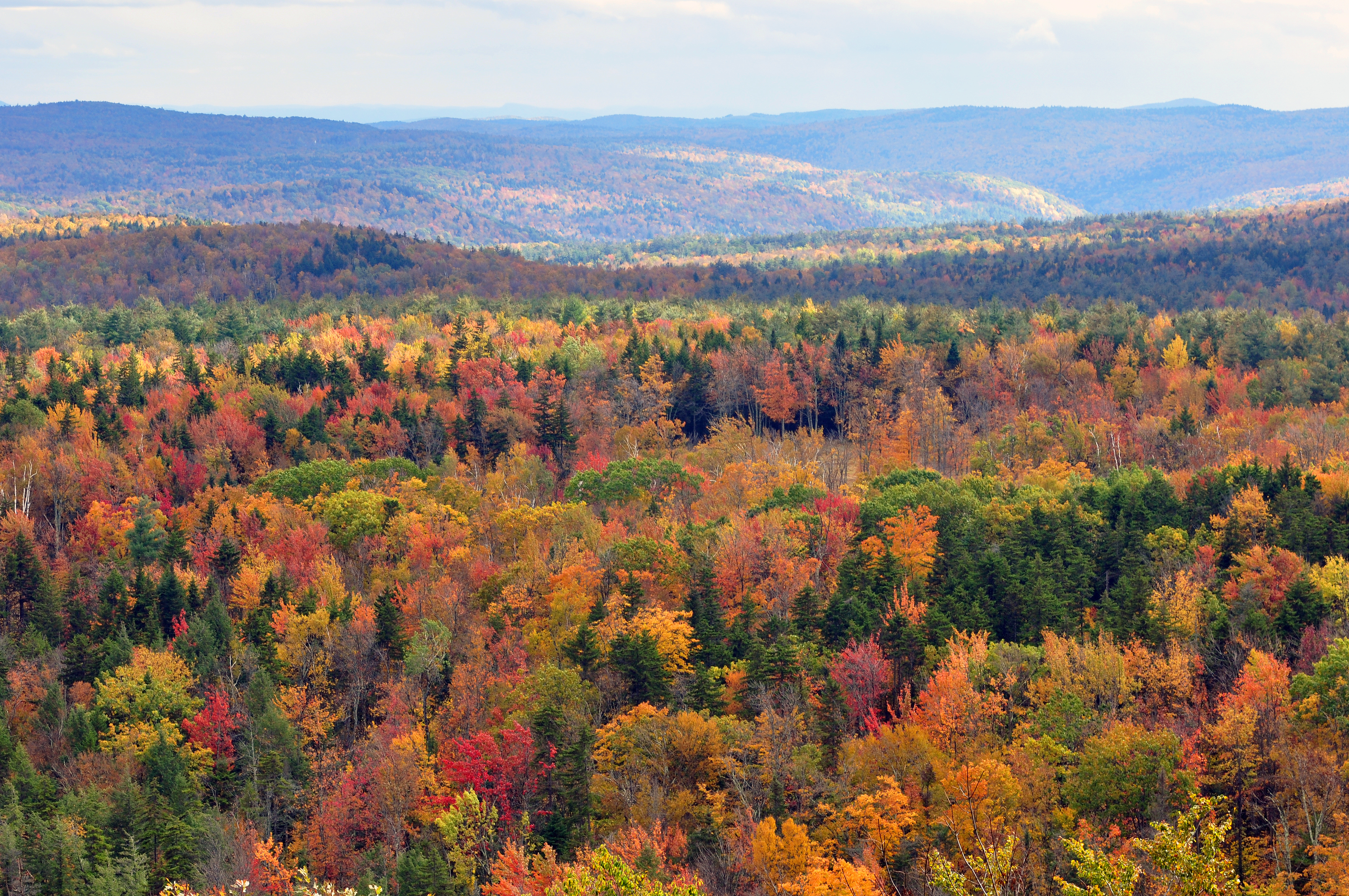 Fall foliage autumn leaf colour Vermont Hogback Mountain one hundred mile lookout